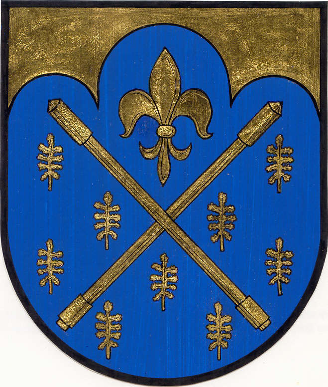 coat of arms of the former municipality of Gressenberg, Styria, Austria